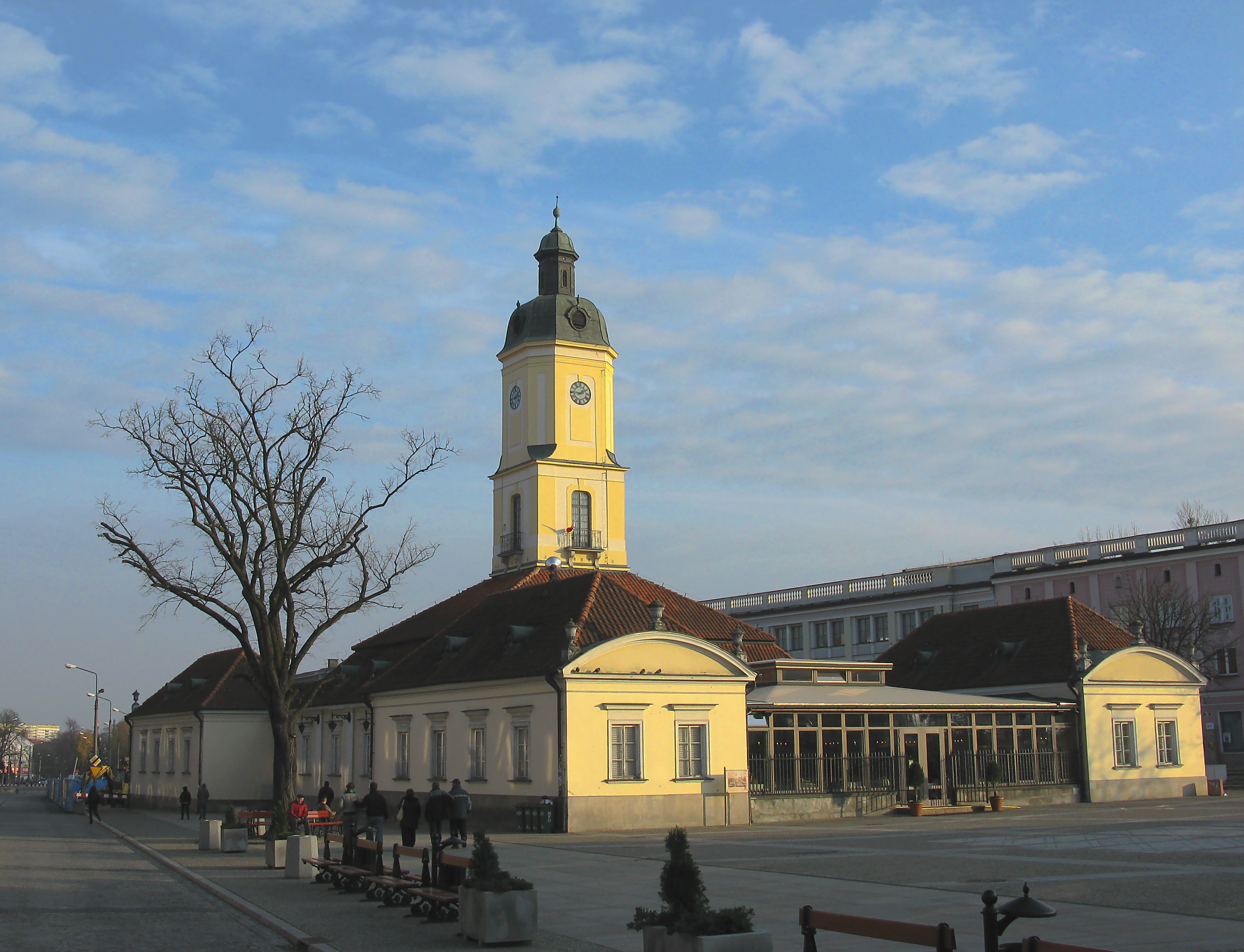 Town hall in Białystok